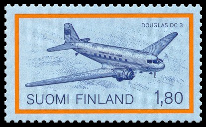 Postage stamp depicting an old Douglas DC3 airplane operating in Finland